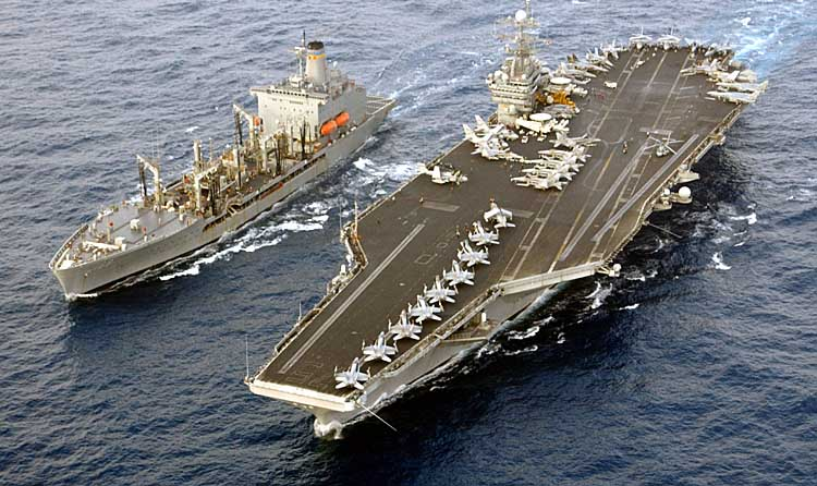 US Navy aircraft carrier USS Harry S. Truman alongside Military Sealift Command Oiler USNS John Lenthall in the Mediterranean Sea. Quote from the purpose of this site is to provide information about the United States Navy to the general public. All information on this site is considered public information and may be distributed or copied unless otherwise specified. Use of appropriate byline/photo/image credits is requested. Photo by Photographer’s Mate 3rd Class Christopher B. Stoltz Picture prepared for Wikipedia by Adrian Pingstone in May 2003.